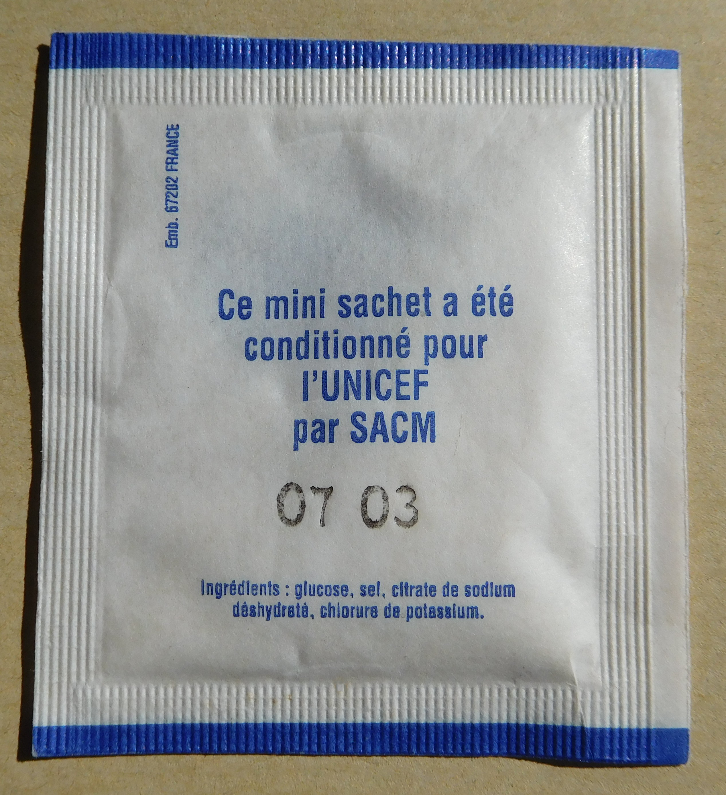 Packet produced by UNICEF of oral rehydration salts (ORS). Store in a cool, dry place.